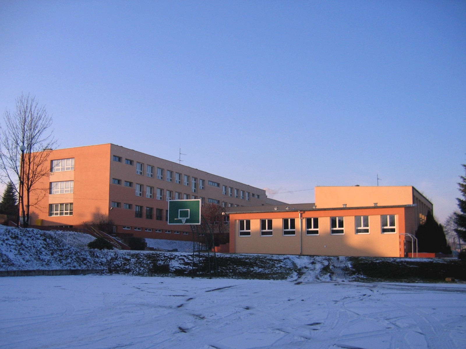 Primary School No 1, Staszówek Quarter, Staszów, Poland.